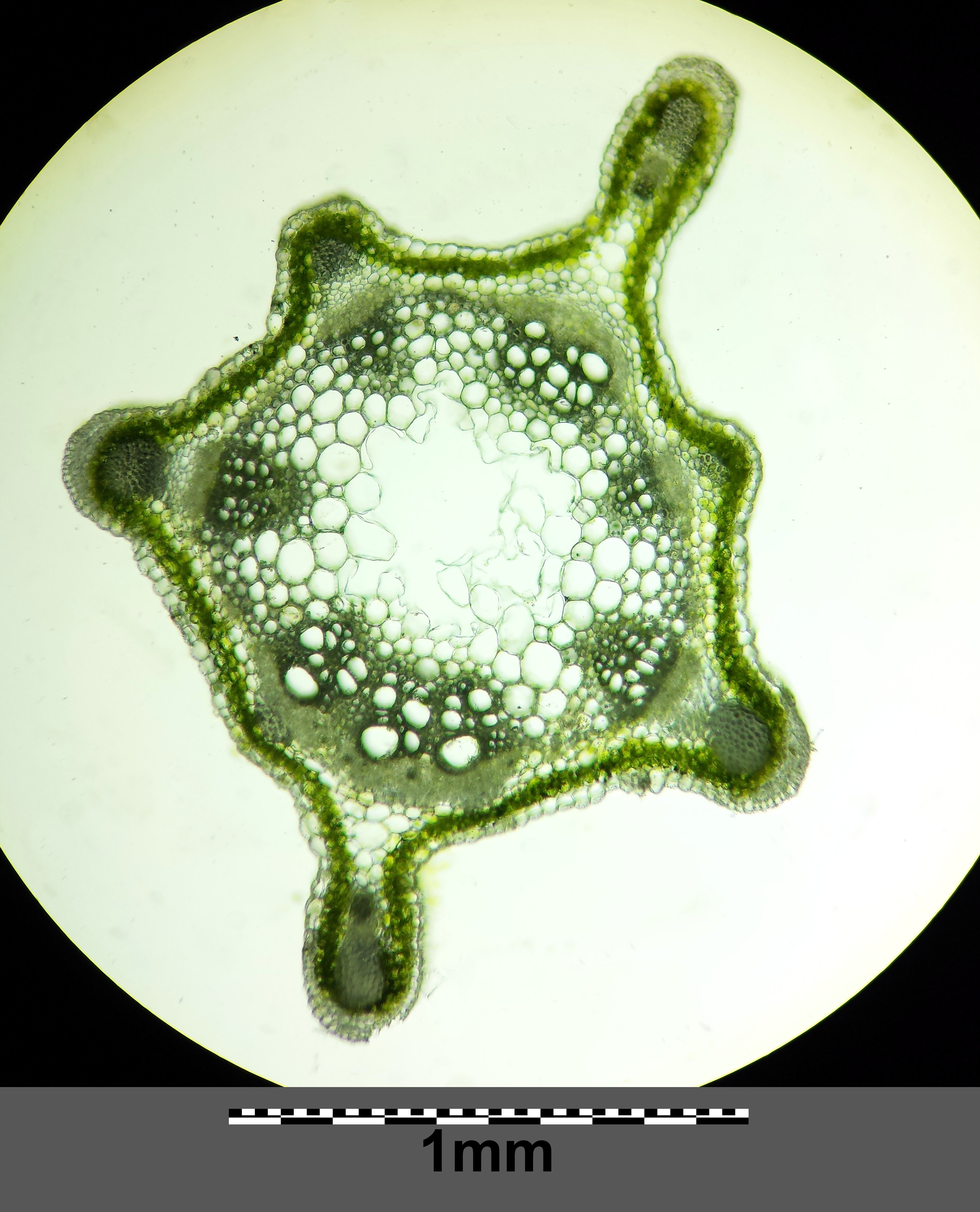 Cross section of stem Taxonym: Vicia hirsuta ss Fischer et al. EfÖLS 2008 ISBN 978-3-85474-187-9 Location: Neue Donau, district Korneuburg, Lower Austria - ca. 160 m a.s.l. Habitat: dry slope